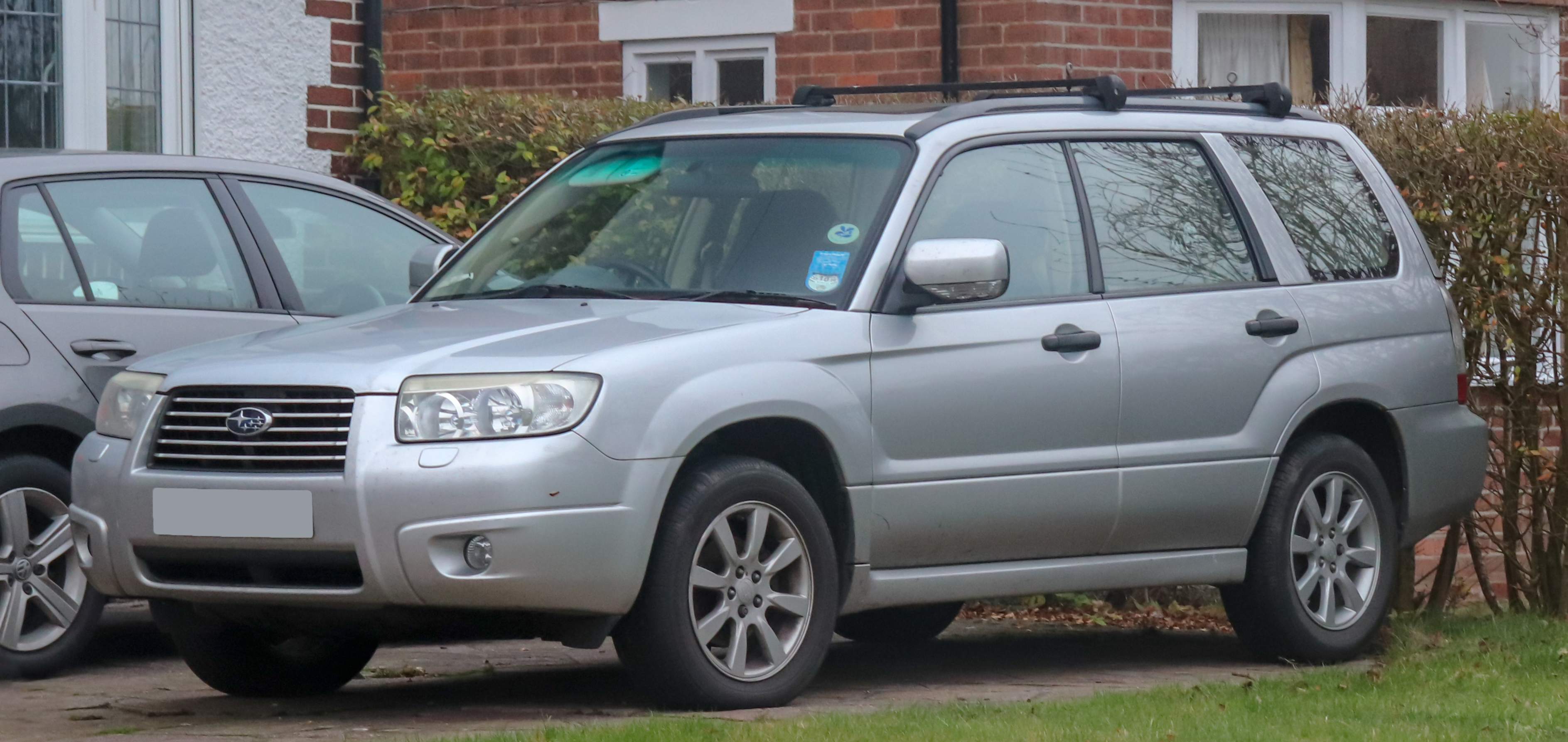 2006 Subaru Forester XE 2.0 Taken in Warwick